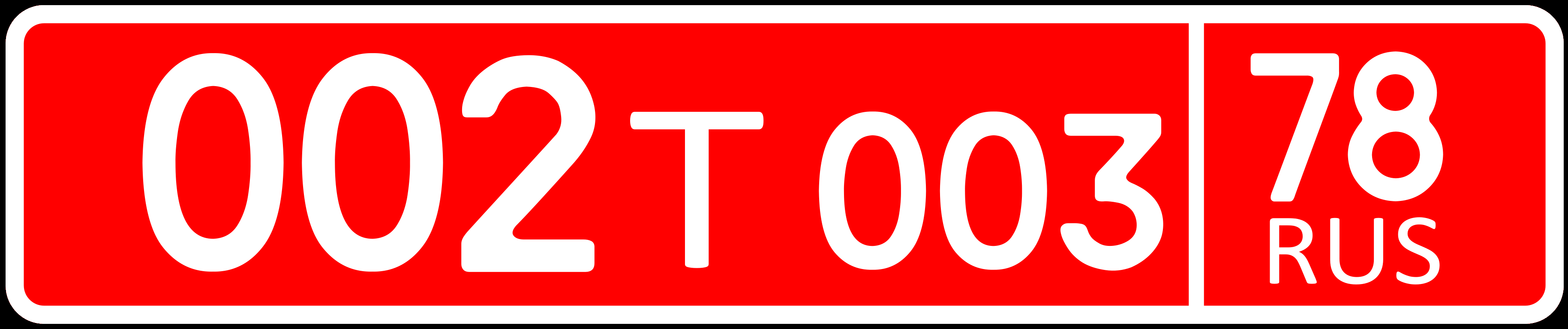 Russian license plate for diplomatic vehicles. Other version.